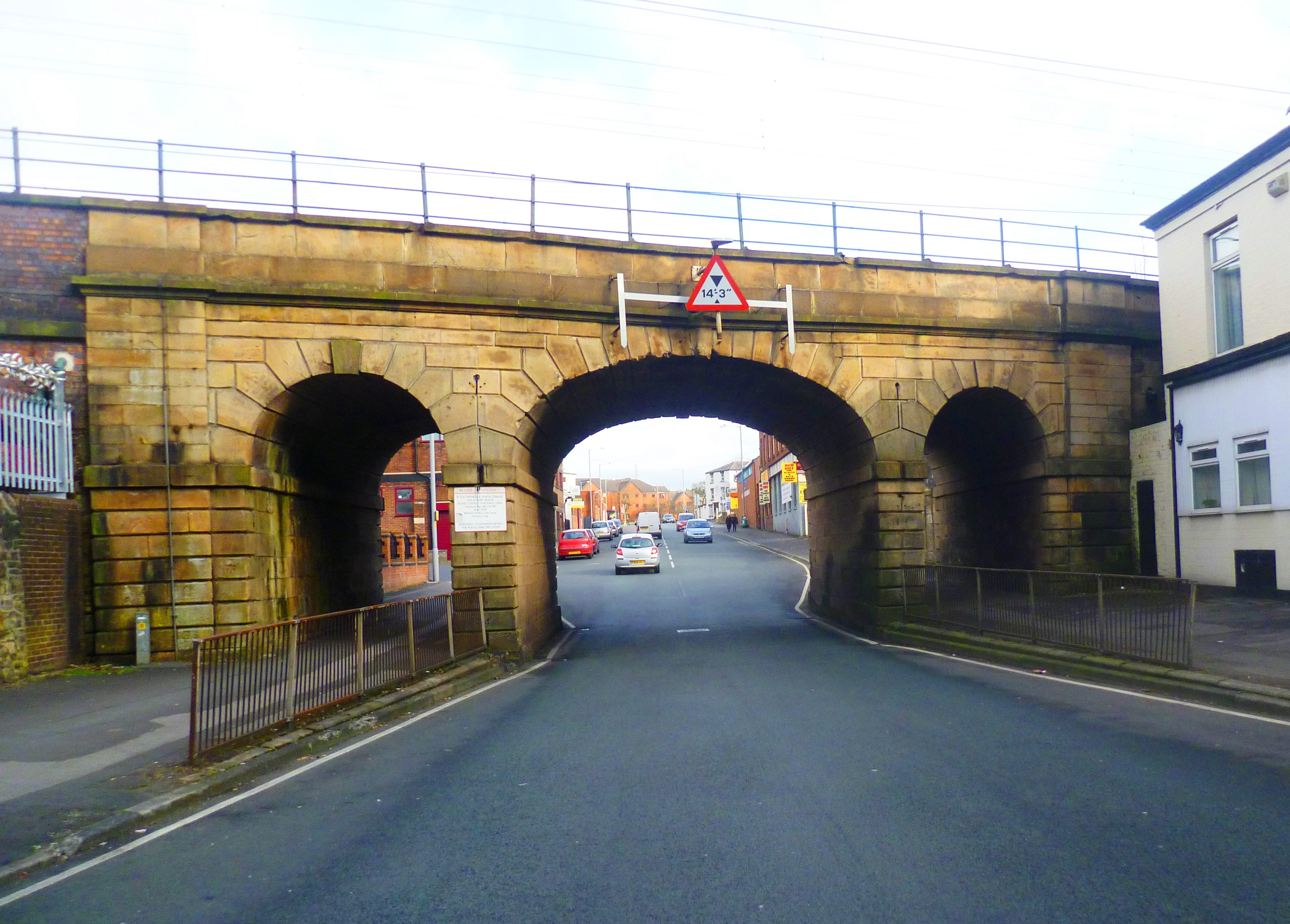 Railway bridge spanning Fylde Road, Preston, Lancashire